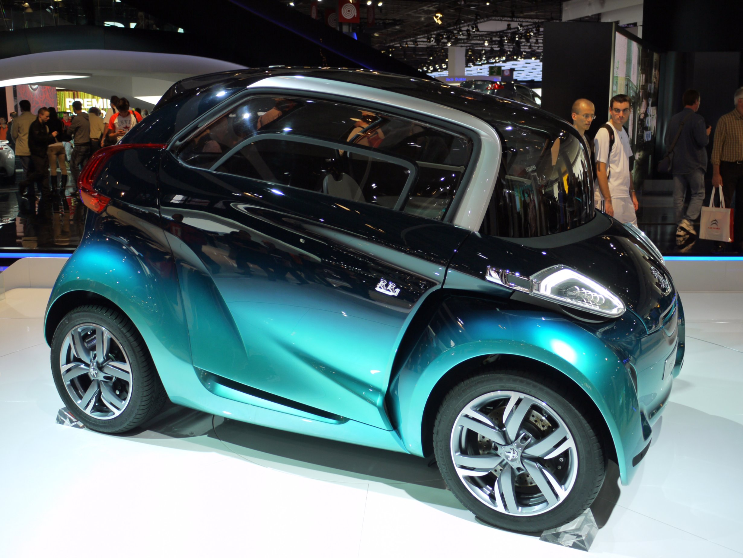 Peugeot BB1 concept. "Its father is a scooter. Its mother is a car. So its no wonder Peugeot’s BB1 is so extraordinary. The zero emission, electric-powered BB1 concept car was unveiled at the Frankfurt Motor Show. Designed as a solution for future mobility, it reinvents every aspect of the automobile – from design and style to connectivity and technology. With a range of around 120 Km (75 miles), the BB1 is incredibly compact - just 2.5metres long – yet still seats four people. The driving position has been completely reworked into a much more upright position – and no foot pedals. And not only is the BB1 fully electric, new generation solar panels also help to power the vehicle. DESIGN Designers drew on the Peugeot heritage in cars, bikes and motorbikes. Yet they also looked to the future, and moved away from current car design. As such, they created a unique driving position and extended wheel arches. The BB1 also features a double bubble roof, similar to the RCZ, and large glazed surface areas. CONNECTIVITY Interactive technologies include rear-view cameras – meaning no need for mirrors – and an in-built audio system. This acts as a ‘smart phone’, providing among other things, telephone, navigation, Internet access, radio and MP3. ENVIRONMENT Drawing inspiration from the quad bike, the Peugeot BB1 is fitted with two electric motors mounted in the rear wheels, designed in association with Michelin. Driveability is key, with excellent in-gear acceleration of 30Km/h to 60 Km/h (19 - 37mph) in 4 seconds. The BB1 is powered by two lithium-ion battery packs with a comfortable range of 120 Km (75 miles)."